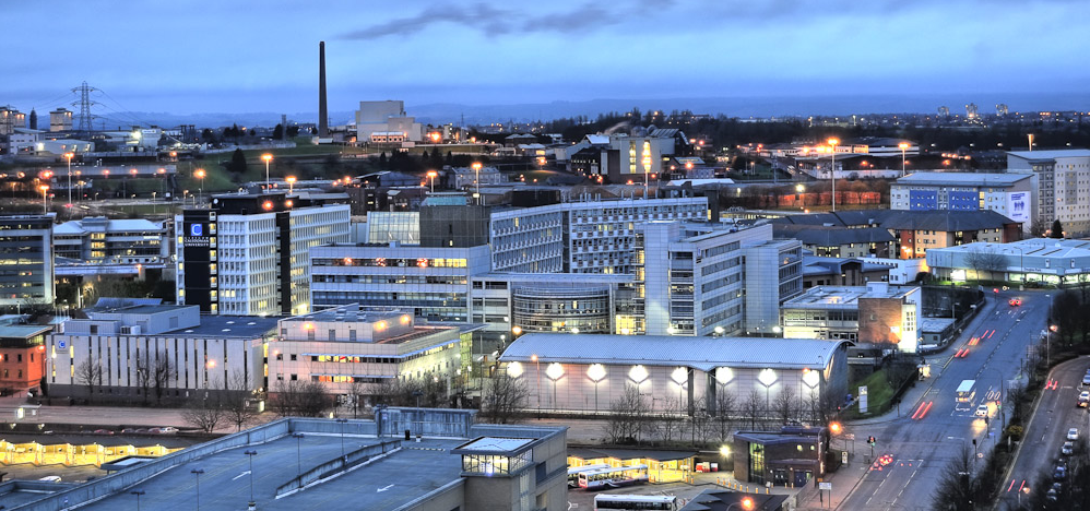 View of the Glasgow Caledonian University Campus